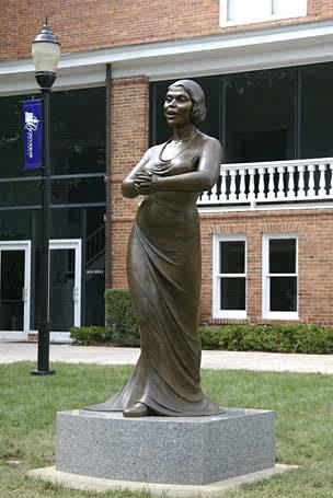 On Sept. 11, 2006, Converse unveiled this beautiful, bronze sculpture of Marian Anderson in front of Twichell Auditorium—its permanent home. New York-based sculpture artist Meredith Bergmann was commissioned by the college and a generous donor to create the sculpture of Anderson.